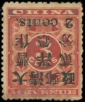 Red 10